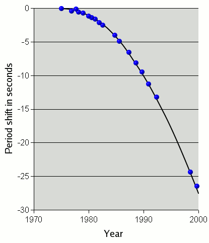 Double star system PSR 1913+16 looses energy due to gravitational wave radiation. Diagram compares calculated (solid line) and measured change of revolution time.